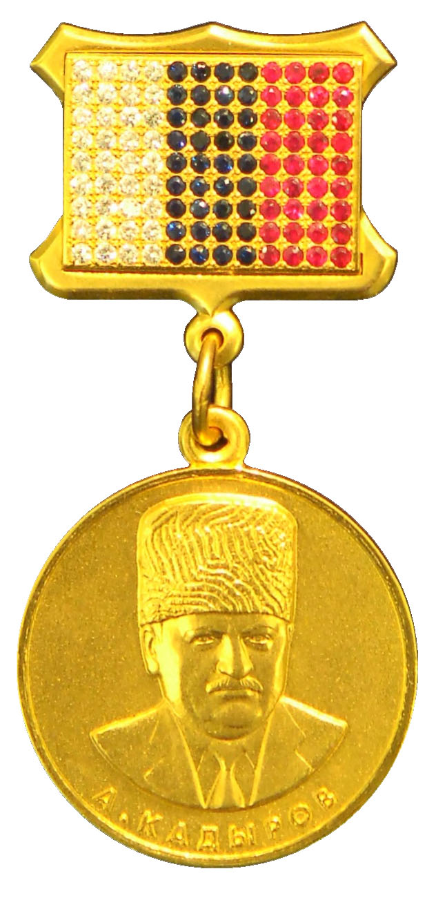 Ahmad Kadyrova's order - the supreme award of the Chechen Republic